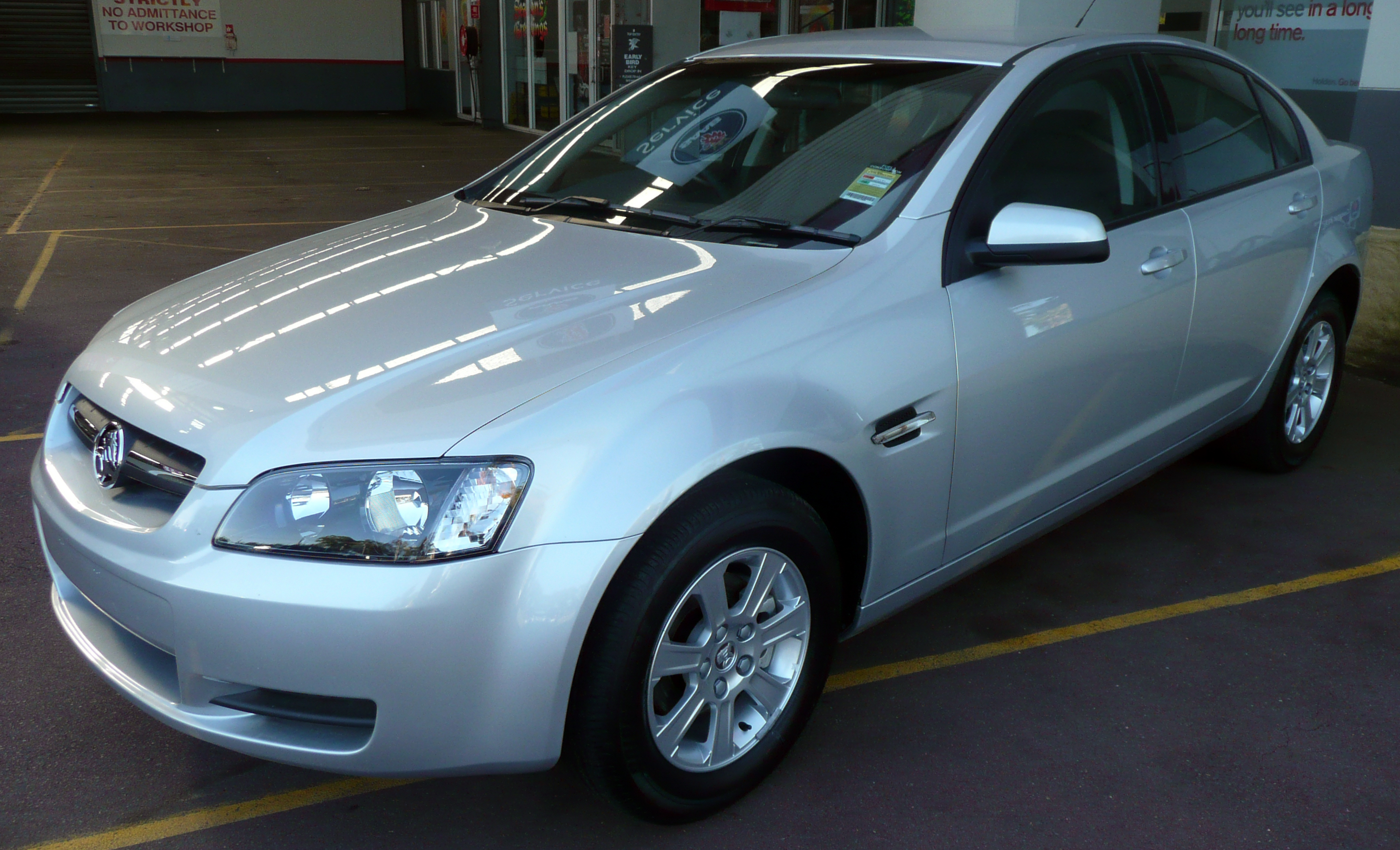 2008 Holden Commodore (VE MY09) Omega sedan. Photographed at McGrath Sutherland Holden, Kirrawee, New South Wales, Australia.